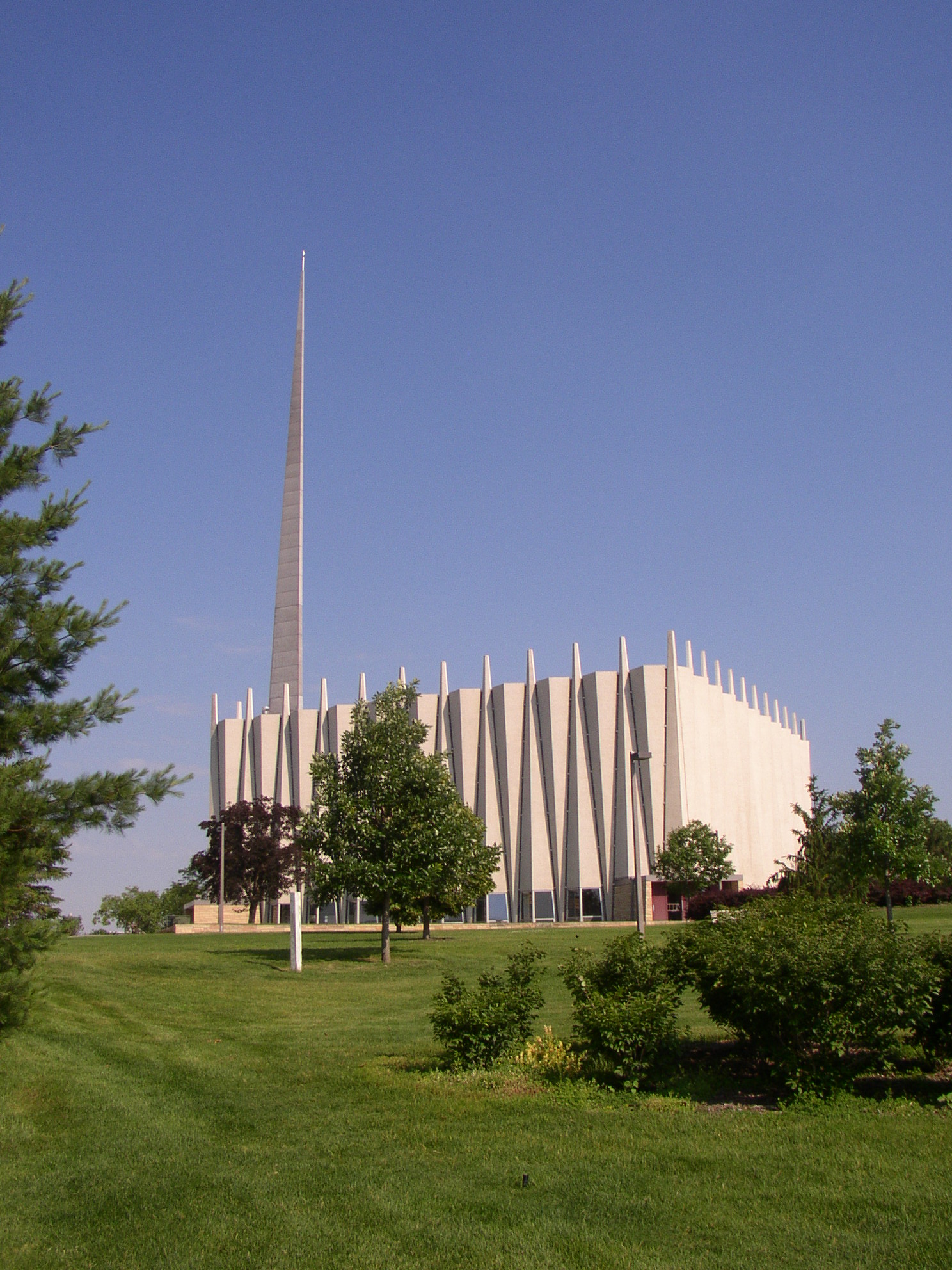 Located in the center of Gustavus Adolphus College, Christ Chapel was constructed from March 2, 1959 to fall 1961. The chapel was dedicated on January 7, 1962. Ecumenical services are held each weekday and on Sundays. Photo taken by uploader. All rights released. Williamborg (Bill) 02:29, 17 June 2007 (UTC)